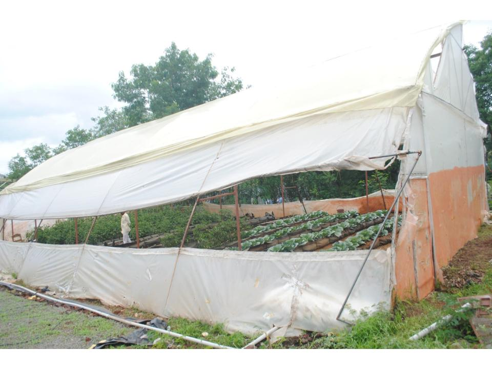 greenhouse in vigyan ashram